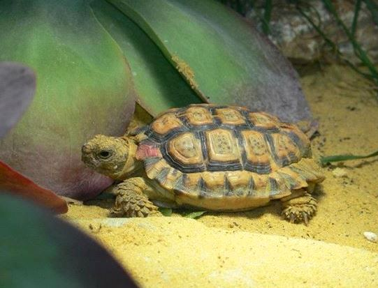 Speckled Padloper - Homopus Signatus - HRF